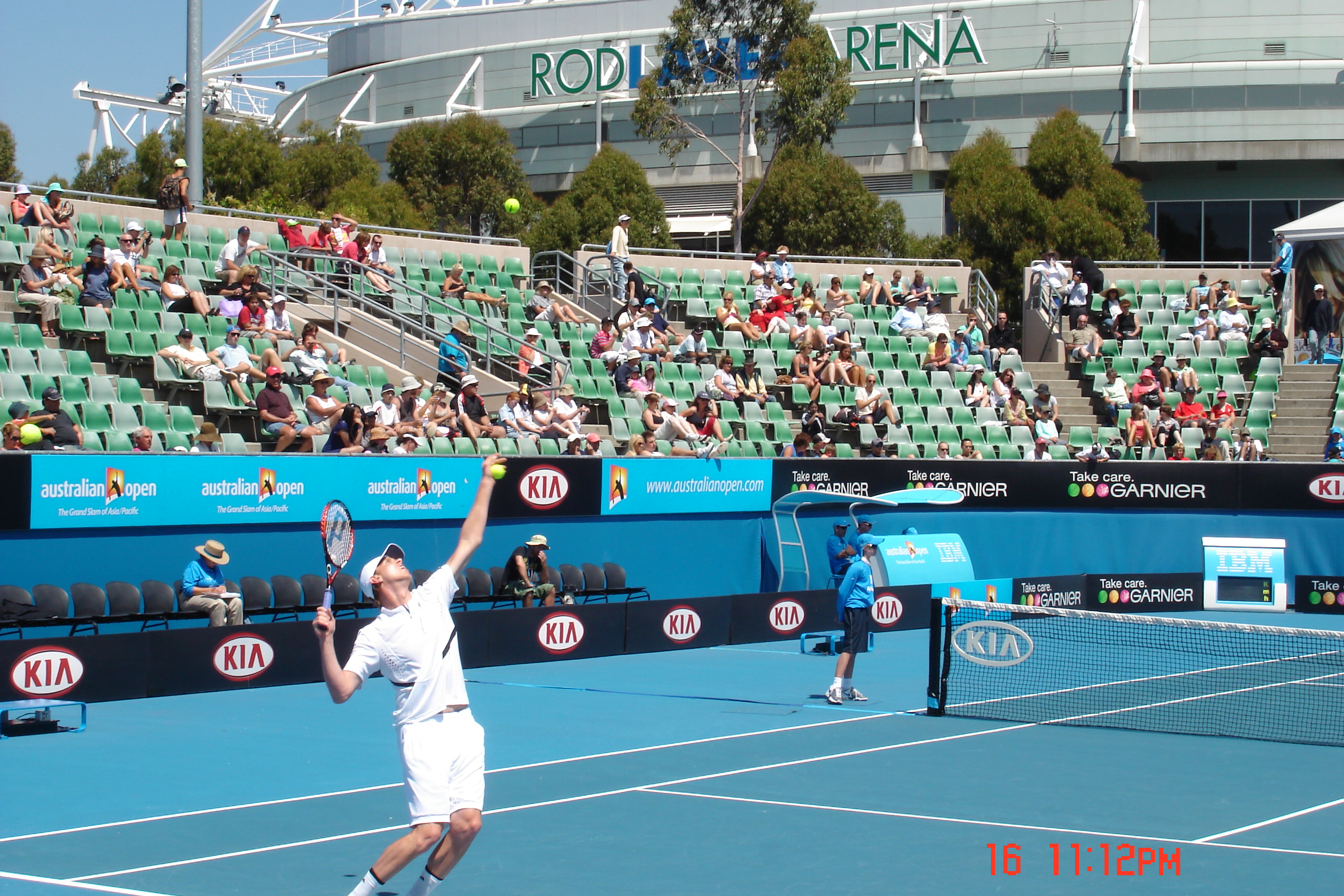 Sam Querrey at 2008 Australian Open (warm-up before win over Tursinov)